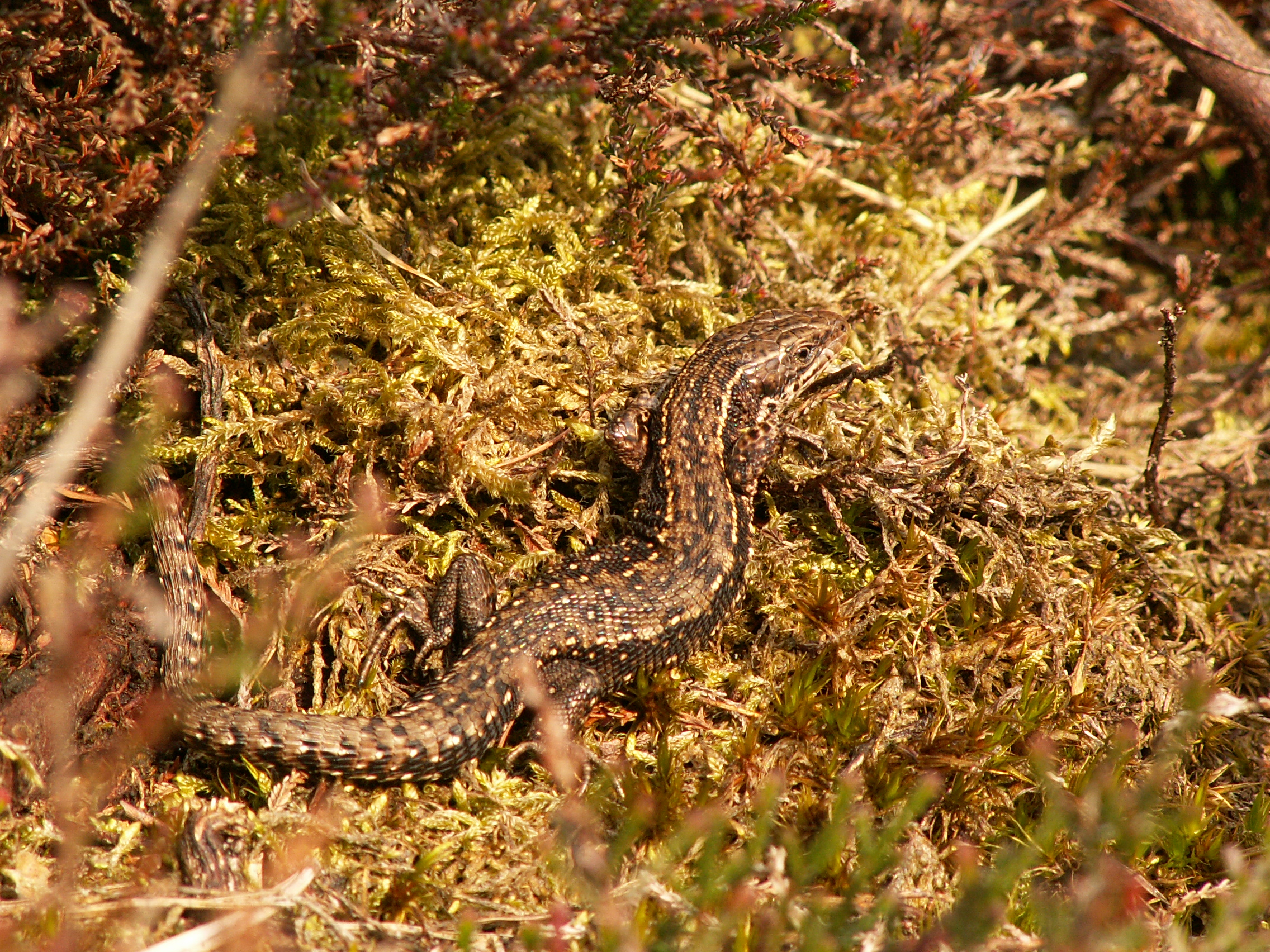 Sunbathing male viviparous lizard Zootoca vivipara near Arnhem, the Netherlands